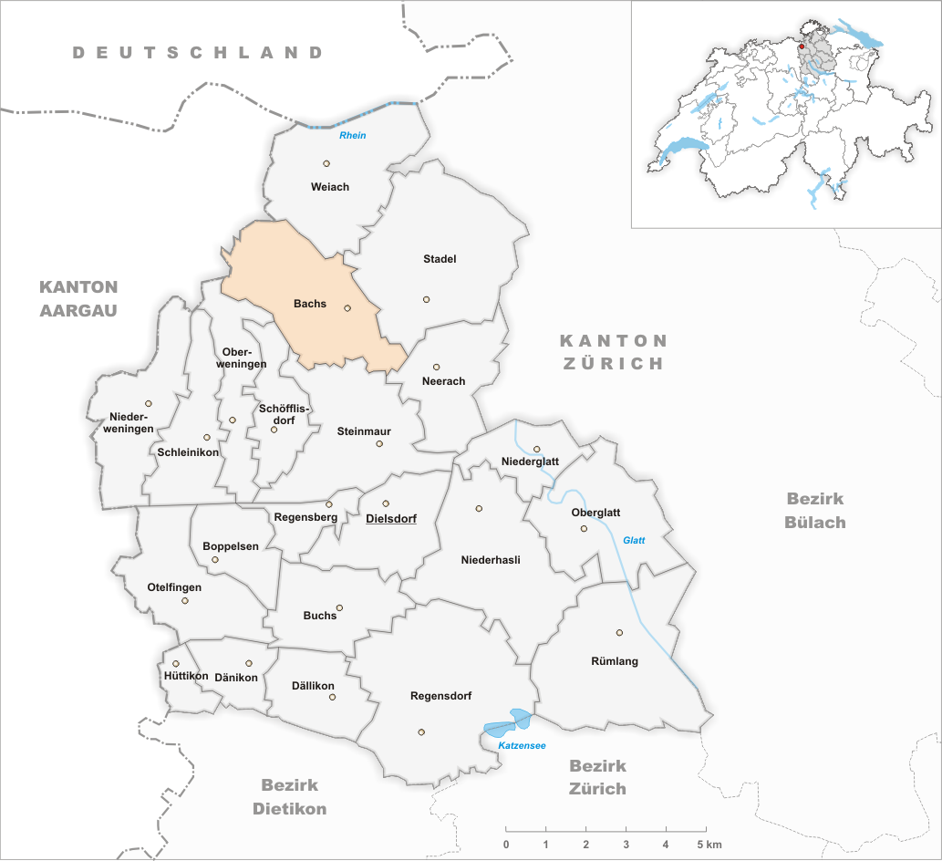 Municipality Bachs